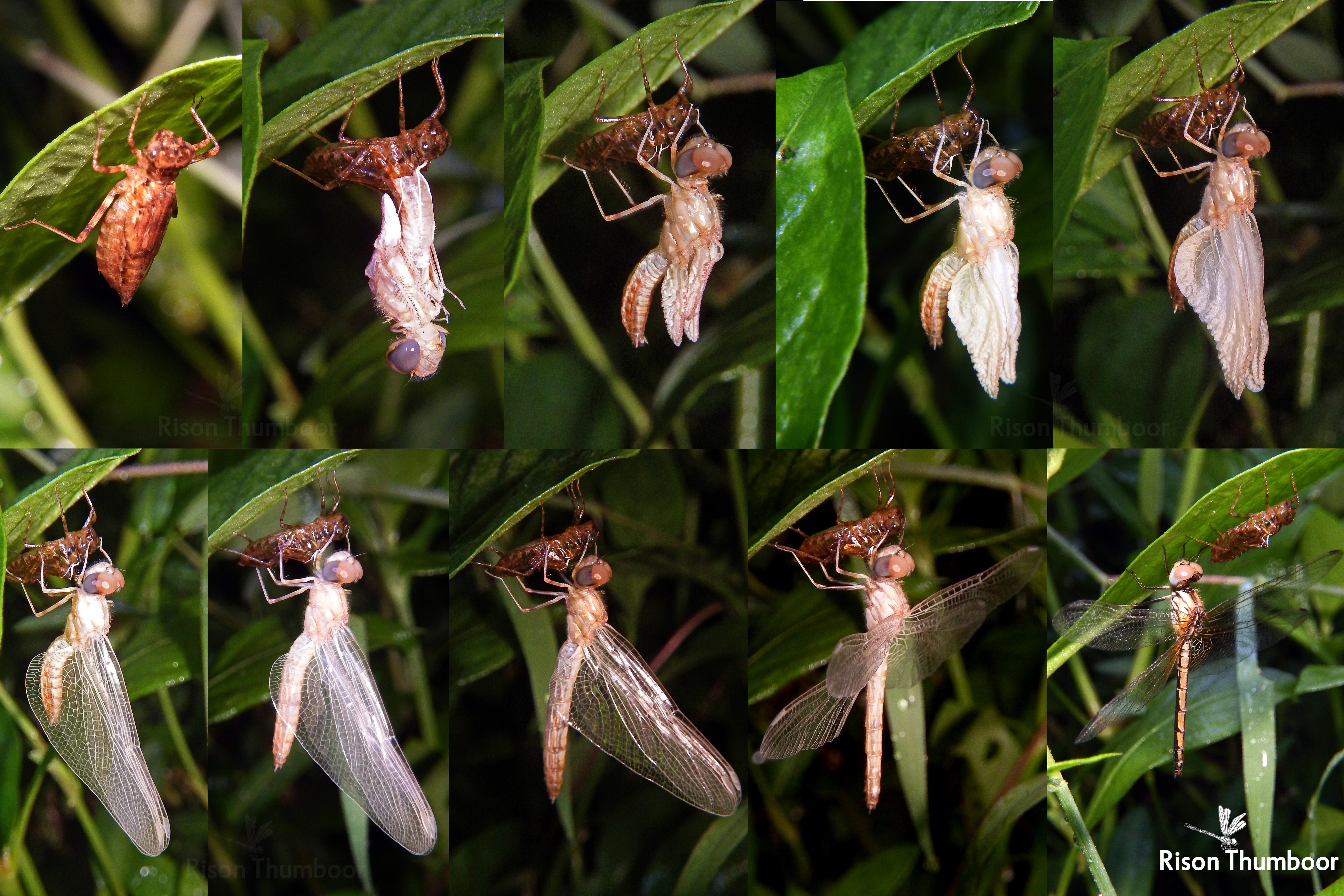 Crimson Marsh Glider (Trithemis aurora) Female dragonfly emerging from its larva step by step.